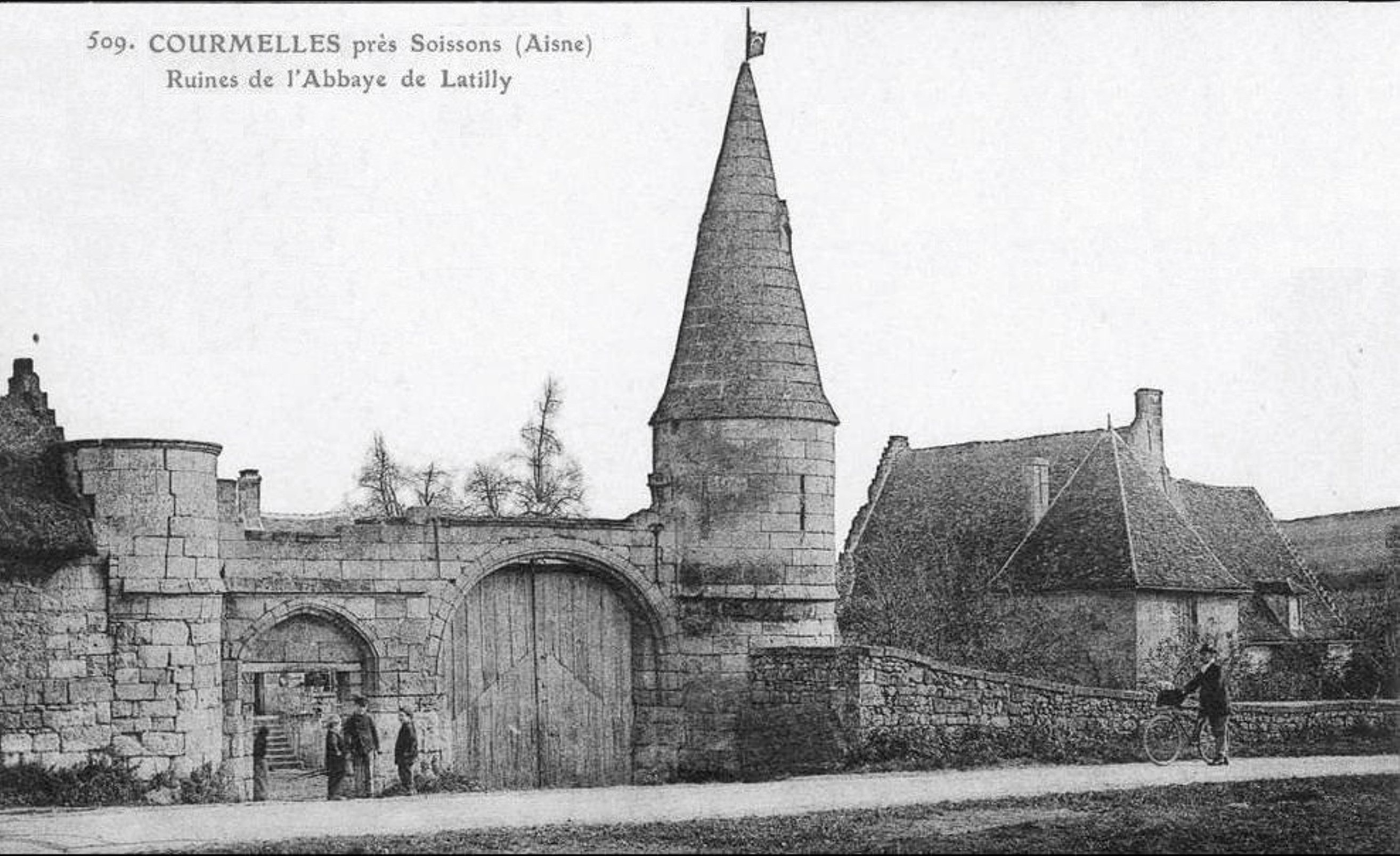 Manor of Latilly in Courmelles in the department of Aisne. Old residence of John II of Courmelles in 1171. Property in 1848 of Hilaire Laurent (Paris 1817 - Courmelles 1890), sculptor in Paris, associated with Frédéric Auguste Bartholdi.